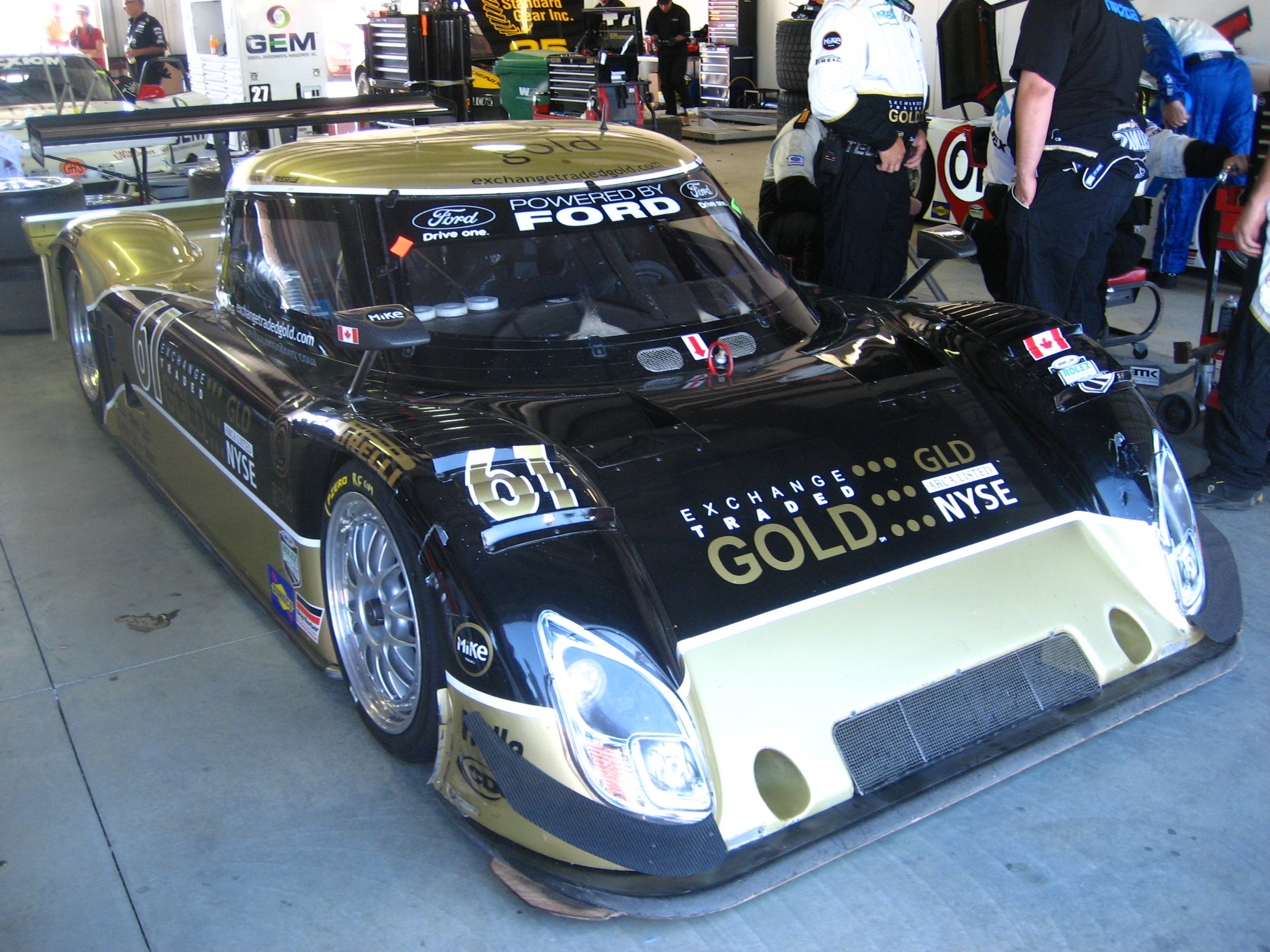 AIM Autosport's Riley-Ford at the 2008 Supercar Life 250 at New Jersey Motorsports Park.